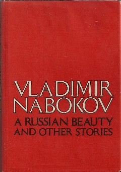 1st edition of A Russian Beauty and Other Stories